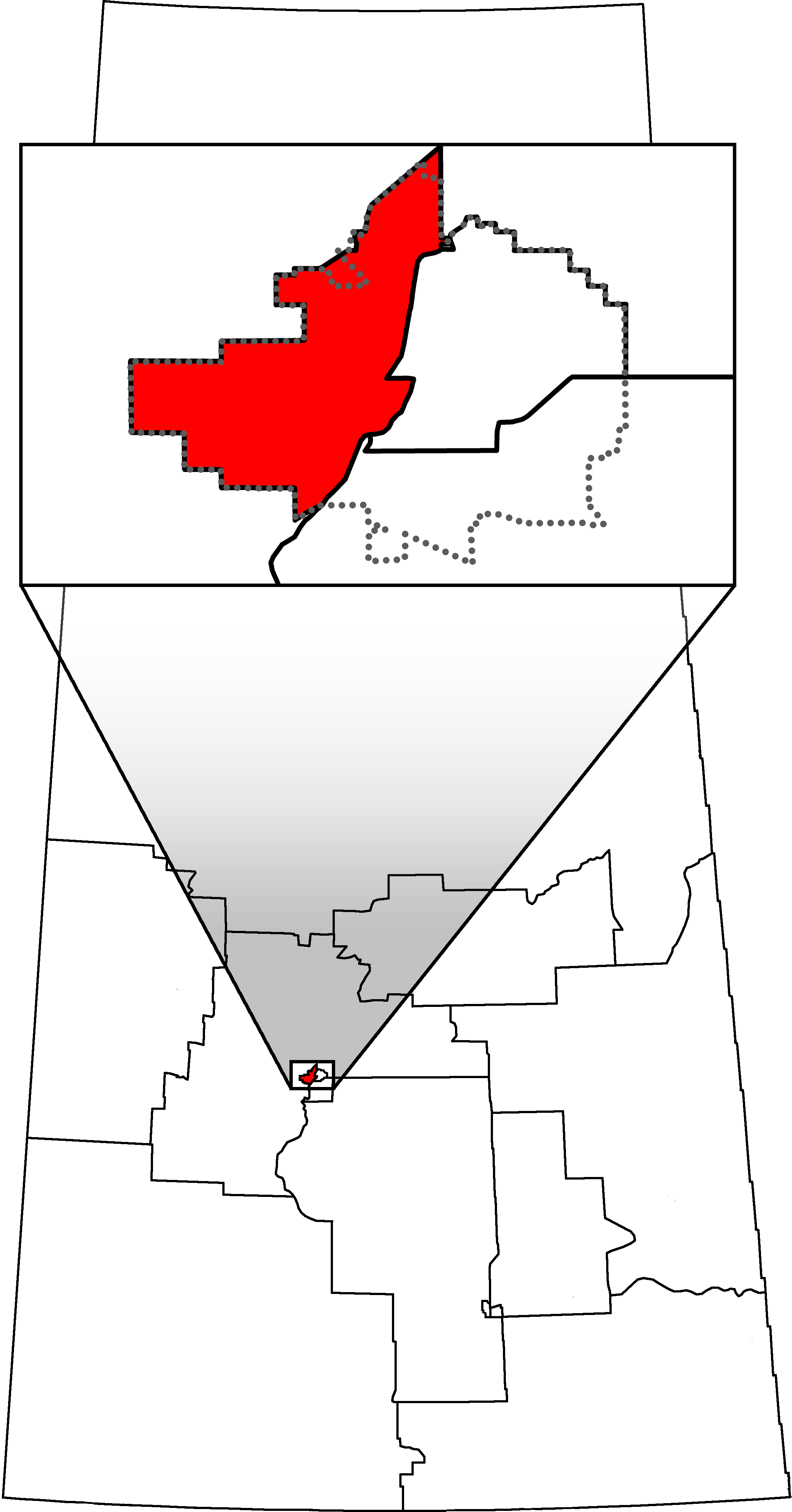 Saskatoon-West in relation to other Saskatchewan federal electoral districts as of the 2013 Representation Order. Dotted line shows Saskatoon city limits.